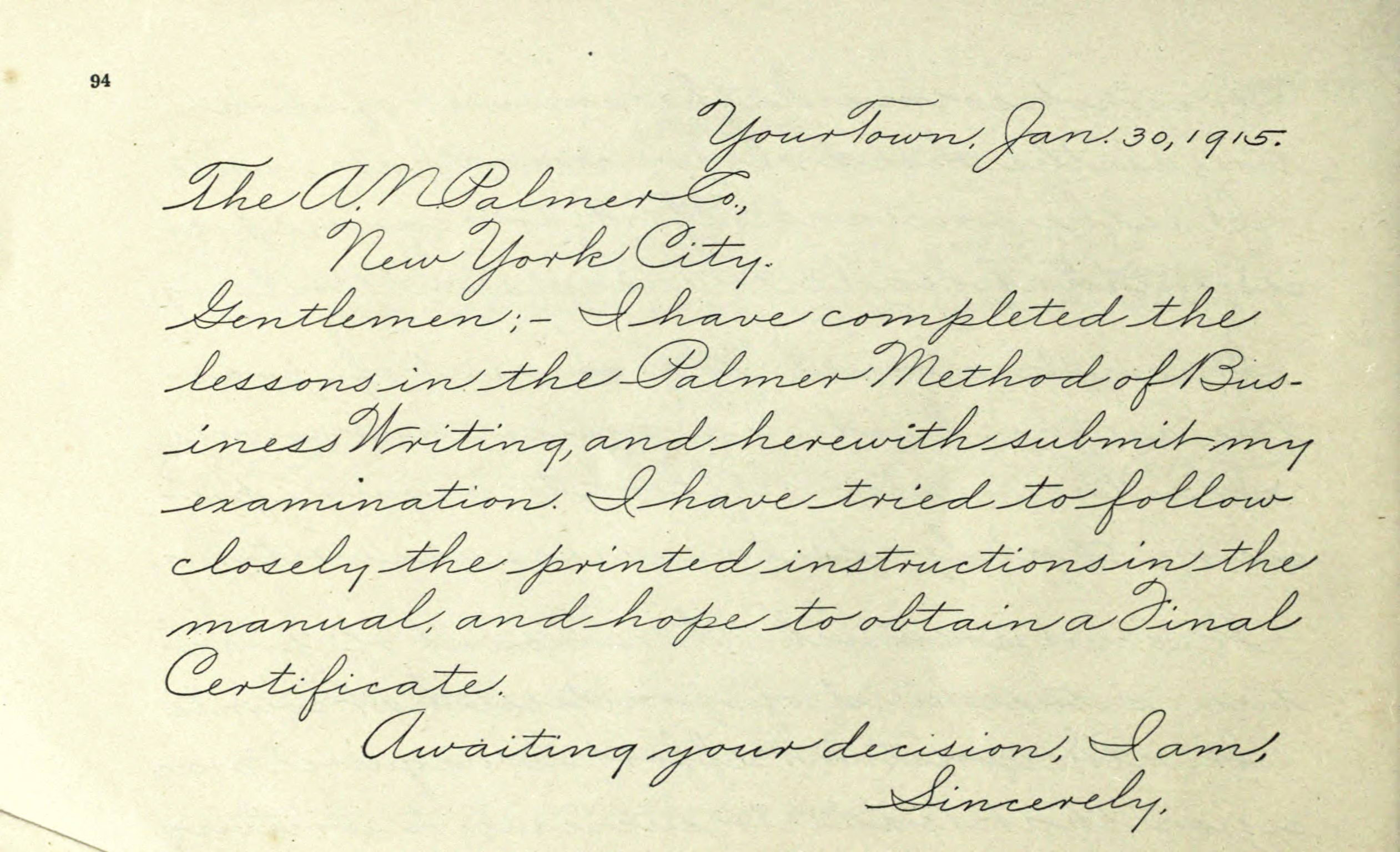 The Palmer Method of Business Writing. A.N. Palmer Published New York, etc., 1901. Page 94